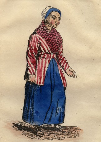 Mrs Docherty, also known as Margery Campbell